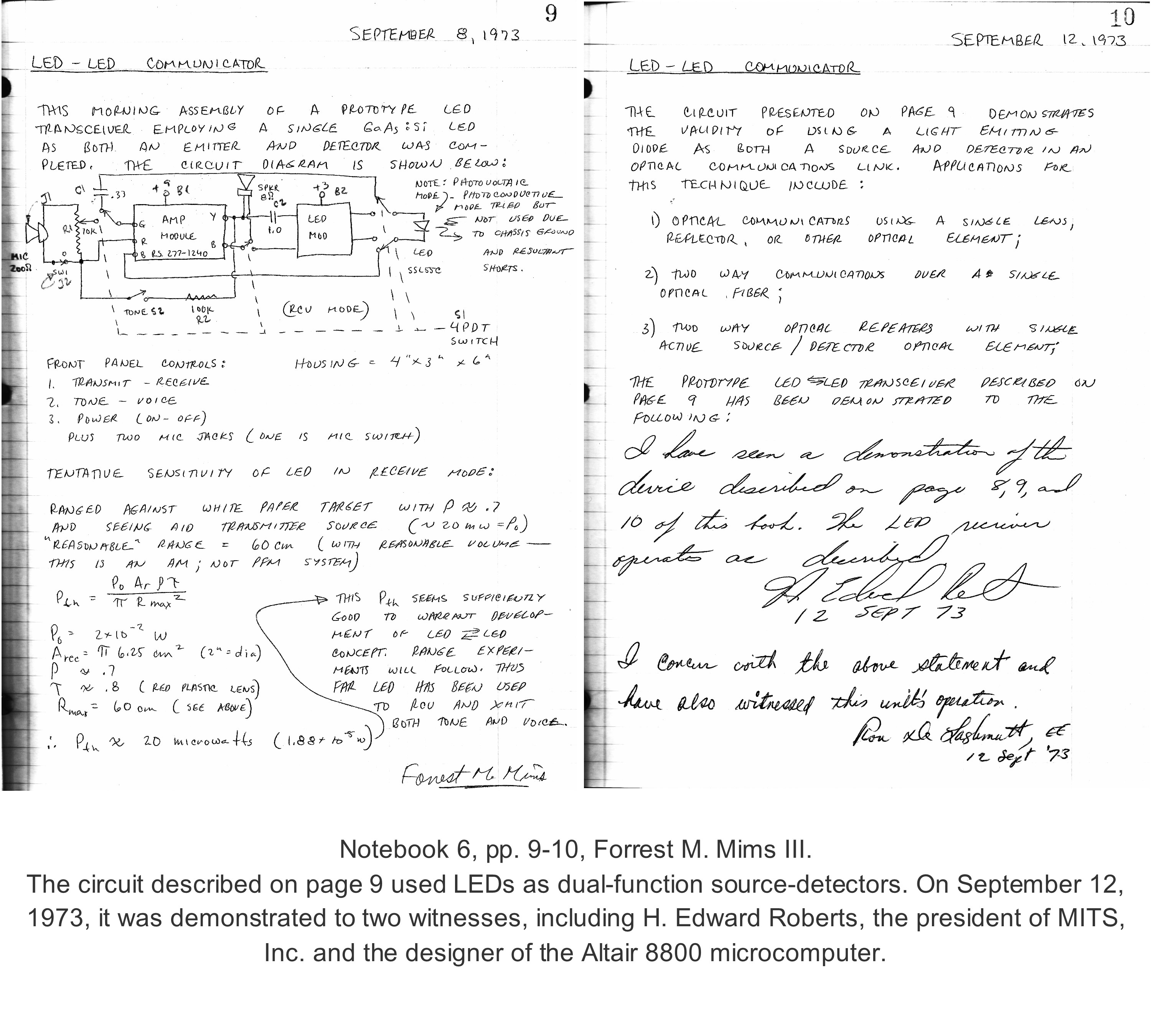 Pages 9-10 (and others) from Notebook 6 by Forrest M. Mims III (September 8 and 12, 1973) discuss the use of near-IR LEDs as dual function emitters/detectors. The first witness statement on page 10 is by H. Edward Roberts, then president of MITS, Inc., and the designer of the Altair 8800 microcomputer in 1974. Visible light LEDs and diode lasers can also function as either emitters or detectors. Their advantages include two-way communication over a single optical path or optical fiber and the fact LEDs can function as spectrally selective photodiodes having a bandwidth as little as several nanometers. The latter characteristic means they do not require an optical filter, and this makes them ideally suited for use in inexpensive sun photometers and radiometers. Their major drawback in this role is that LEDs are more temperature sensitive than silicon photodiodes.